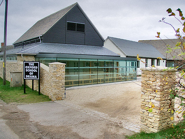 The Oxford School of Drama A small independent drama school, but one of the top drama schools in the country.